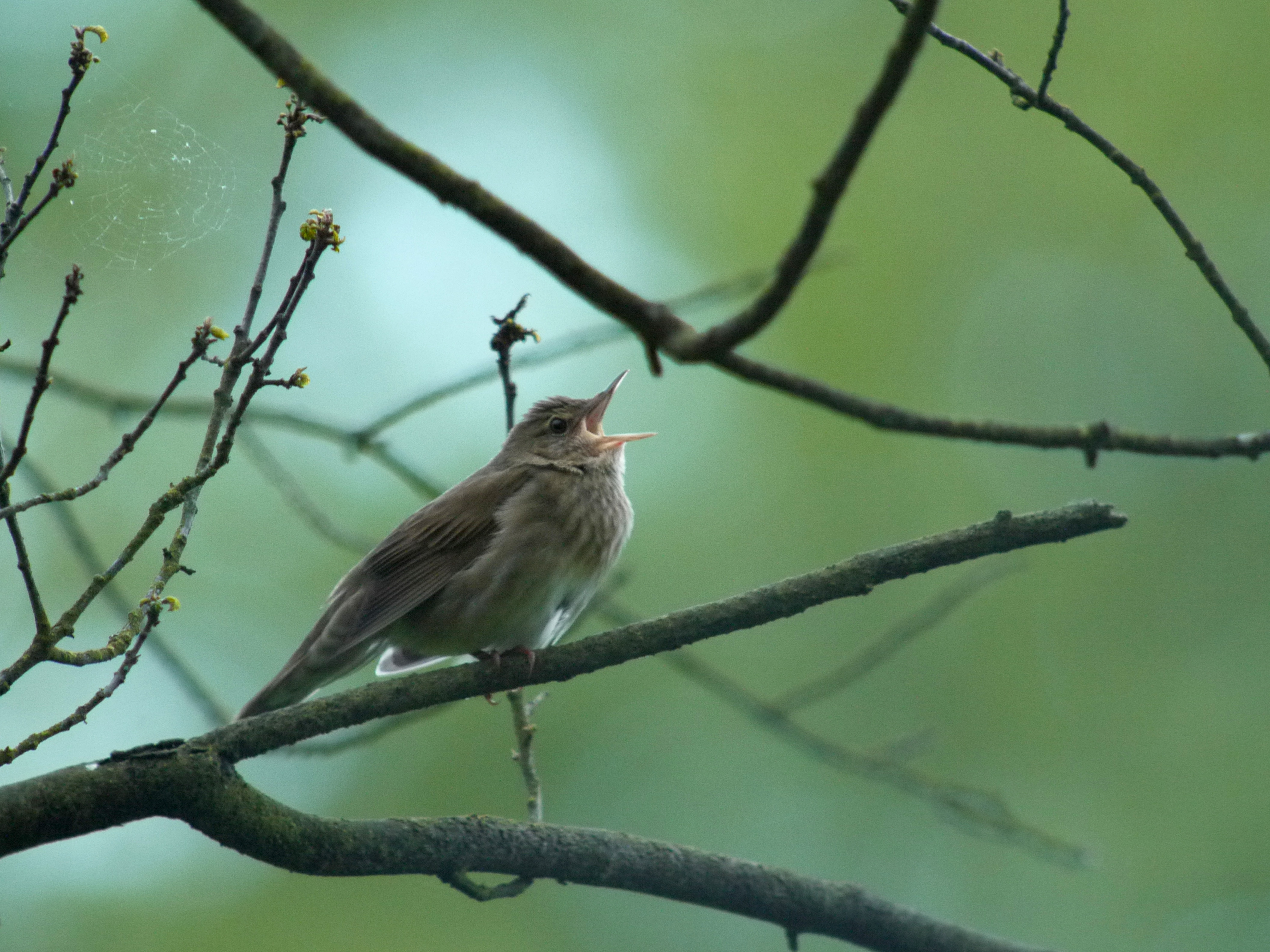 River Warbler Locustella fluviatilis, Gugny, Biebrza National Park, Poland